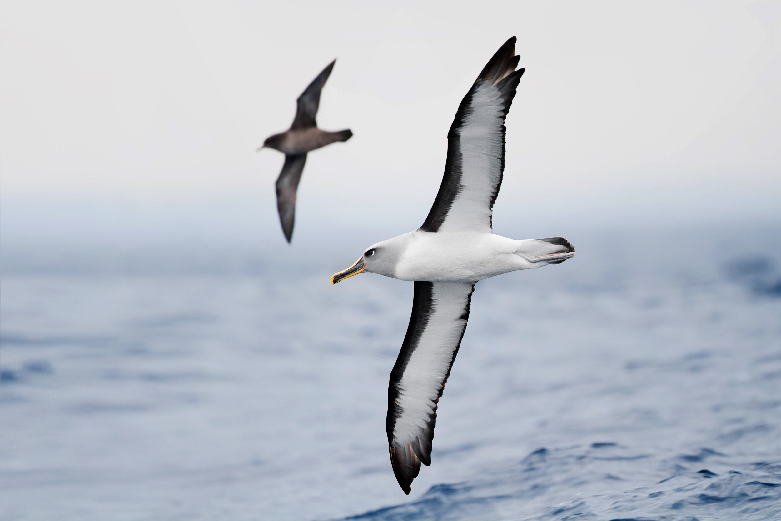 Buller's Albatross (Thalassarche bulleri) with a Short-tailed Shearwater (Puffinus tenuirostris) behind, East of the Tasman Peninsula, Tasmania, Australia.